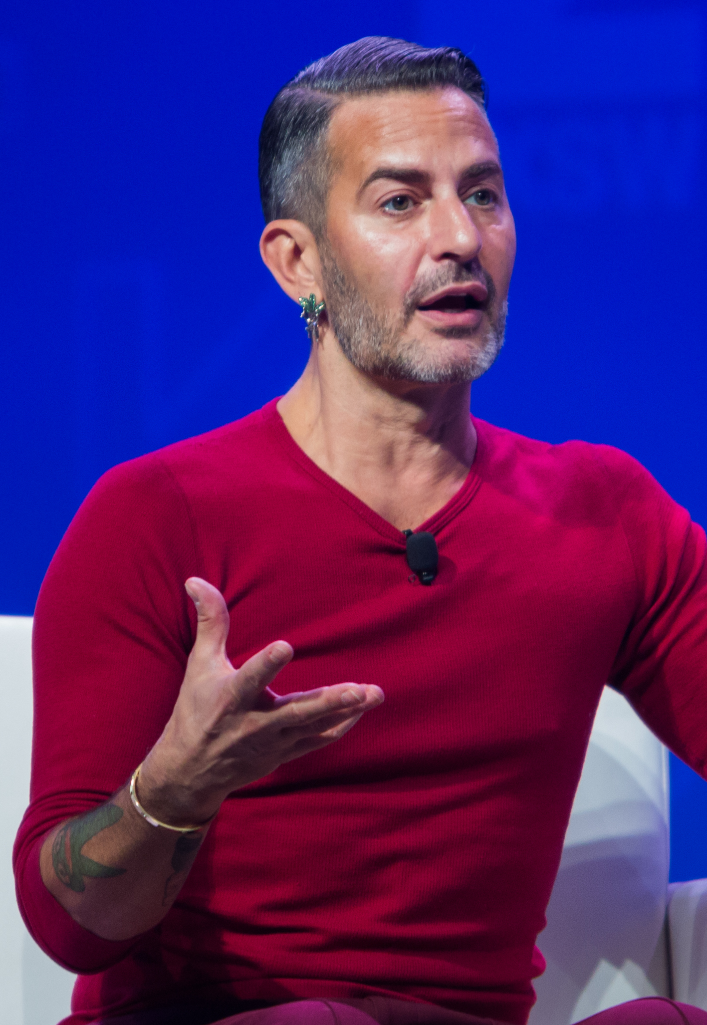 From his conversation at SXSW. Photo: Ståle Grut/NRKbeta Session description: In 1984 Jacobs designed his first collection with the Marc Jacobs label. The following year, Jacobs received the distinct honor of being the youngest designer ever to be awarded the fashion industry’s highest tribute: The Council of Fashion Designers of America (CFDA) Perry Ellis Award for New Fashion Talent. With stores across the globe, Marc Jacobs International now includes Women’s and Men’s RTW and accessories, a children’s line called Little Marc Jacobs, multiple award winning fragrances, the bookstore Bookmarc and most recently Marc Jacobs Beauty.